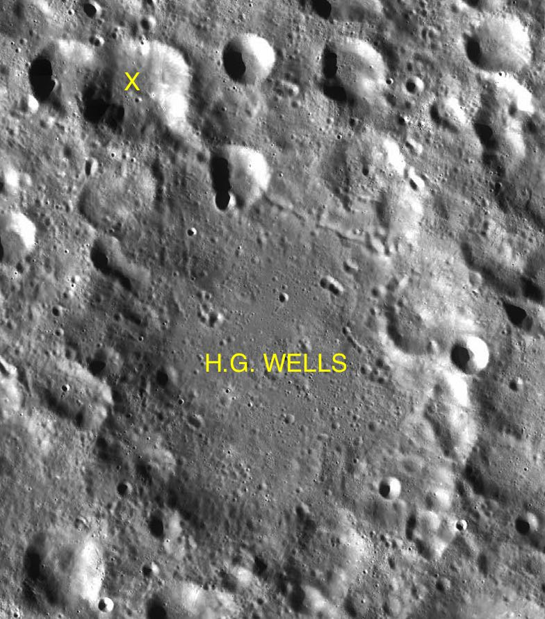 Part of the chart LAC-30 used for the presentation